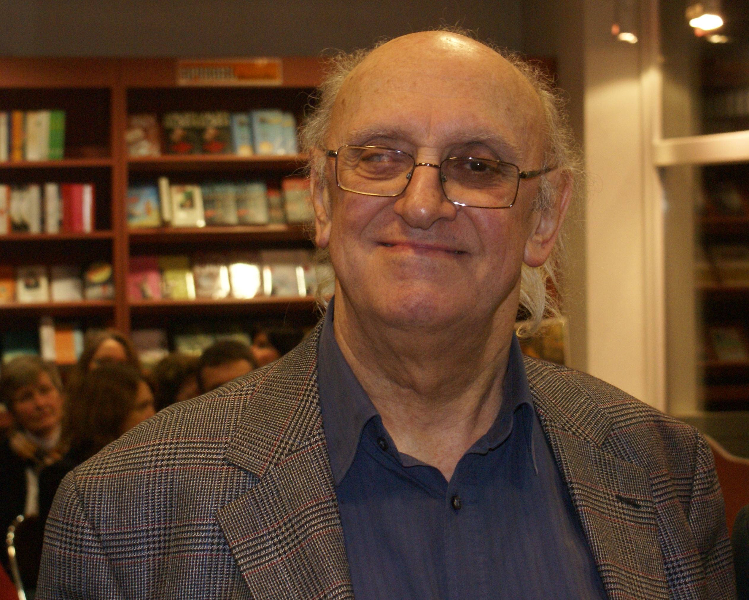 Greek crime fiction auther Petros Markaris at a reading in Werther, Germany, in March 2012